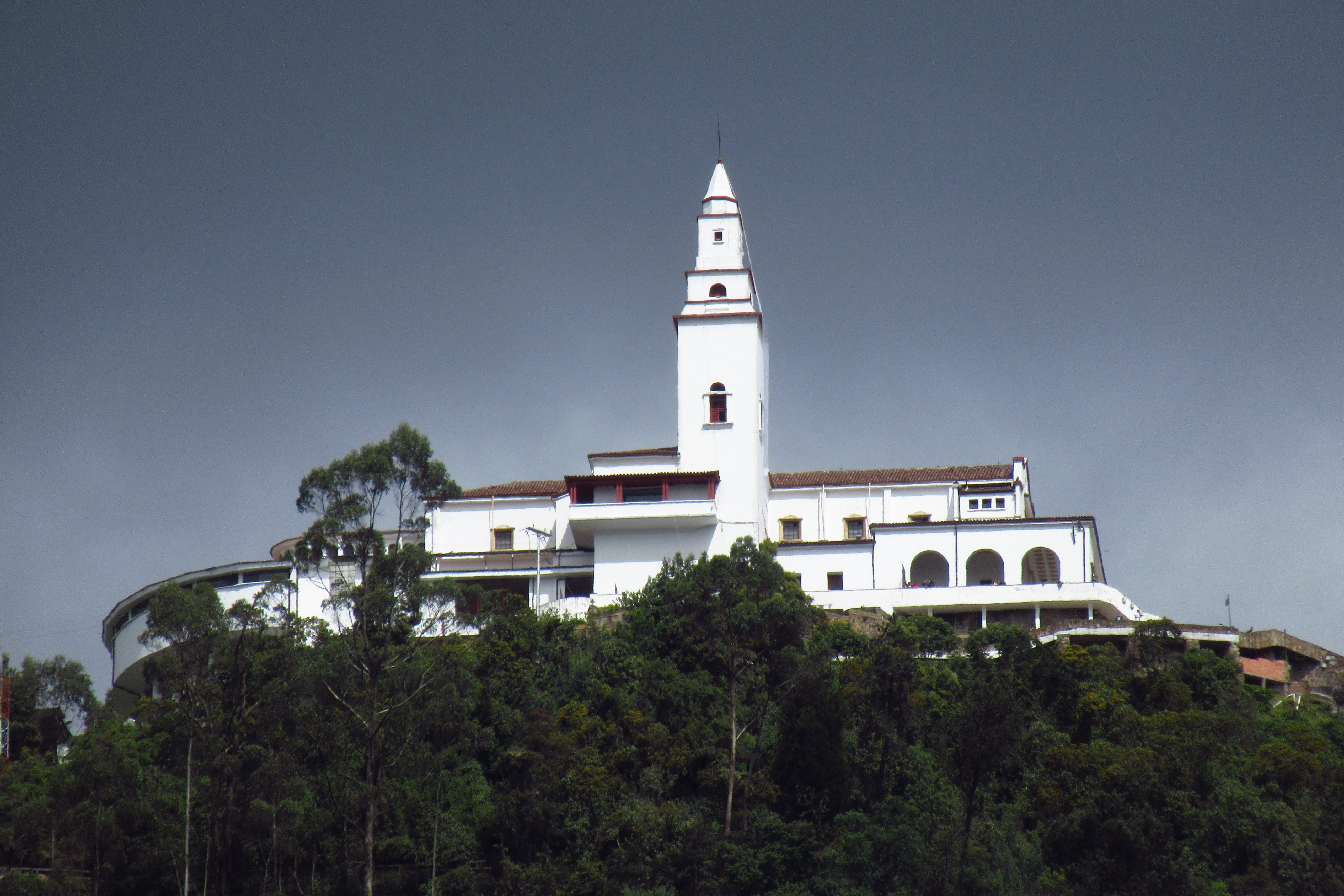 2019 in Bogotá